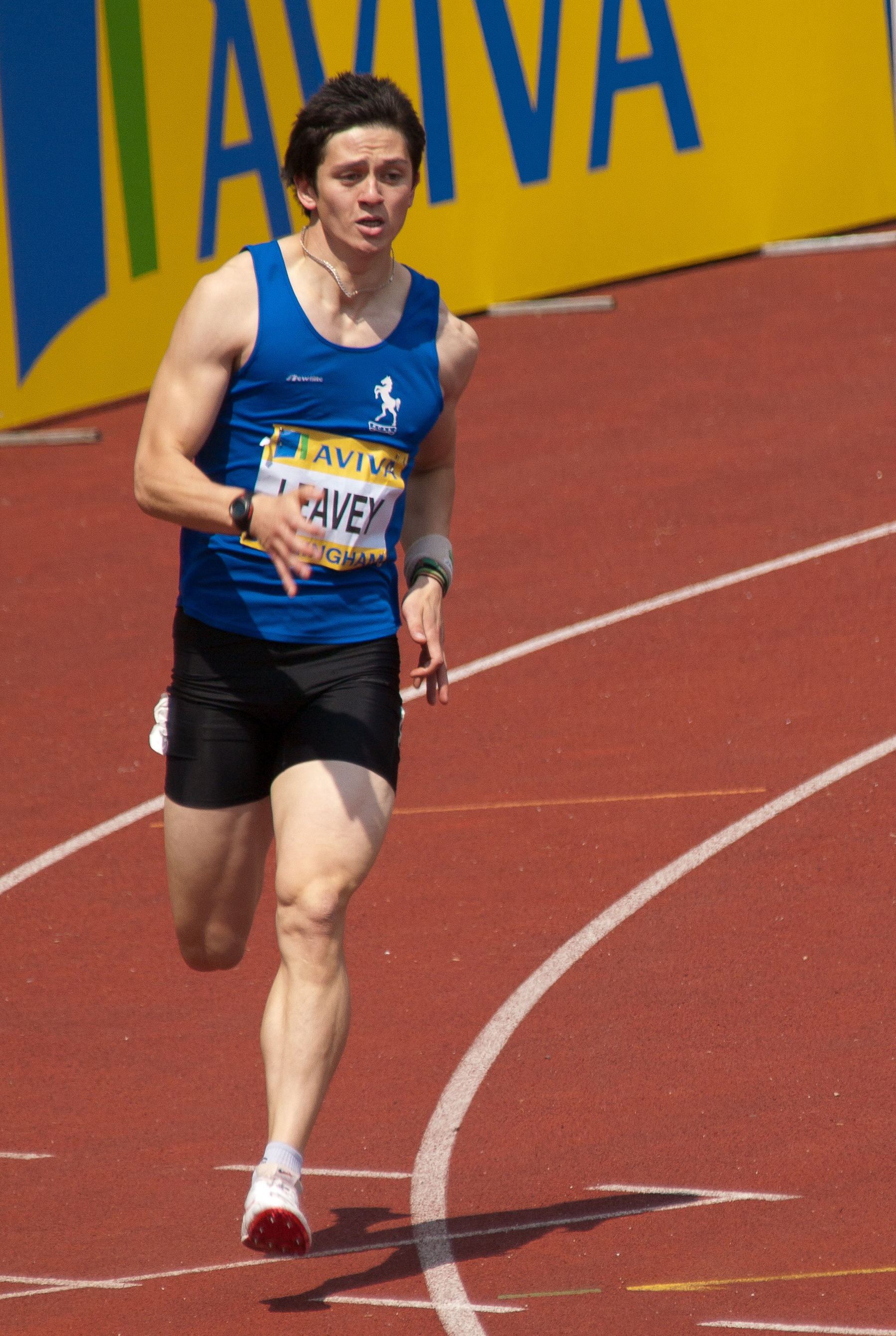 Nick Leavey in Heat 4 of the Mens 400m at the Aviva 2010 UK Athletics Championships and European Trials at the Alexandra Stadium in Birmingham